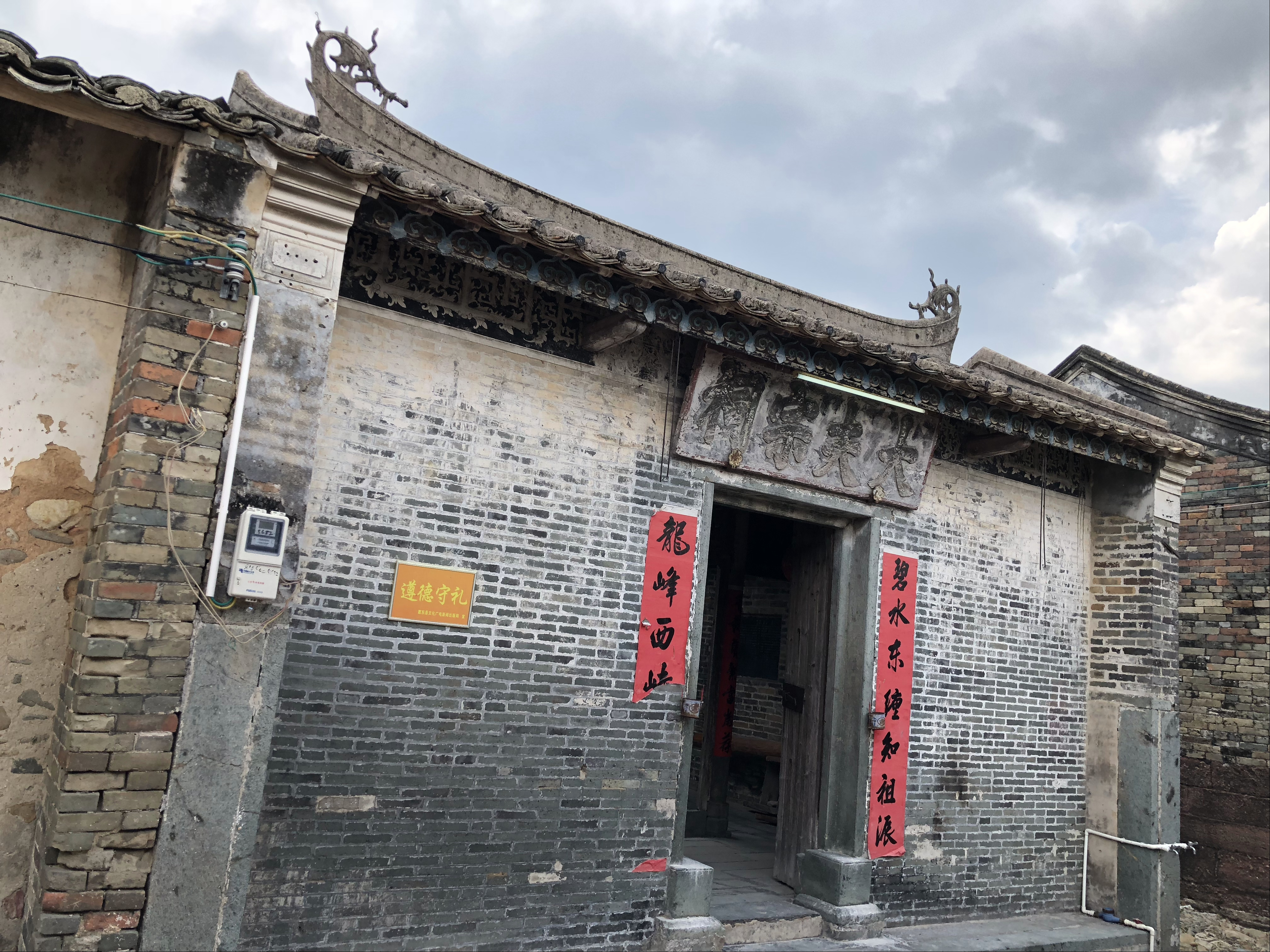 Daifu Ancestral Temple.